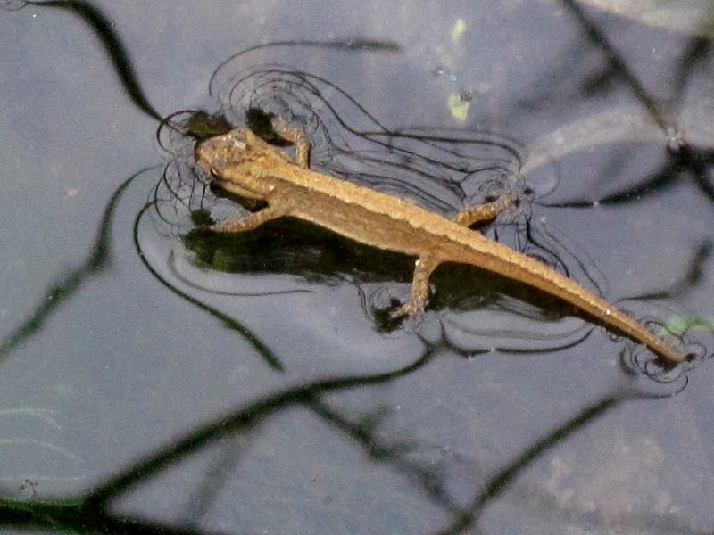 Lissotriton vulgaris (Smooth newt), Arnhem, the Netherlands